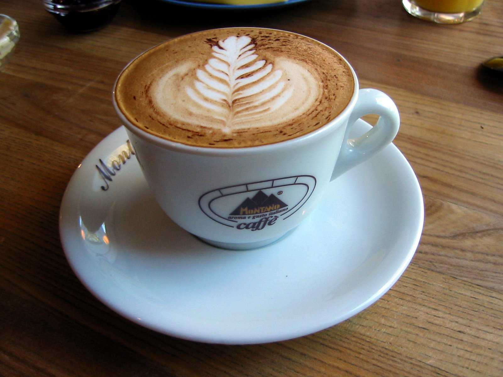 Cappuccino at Coffee Break in Lund, Sweden.